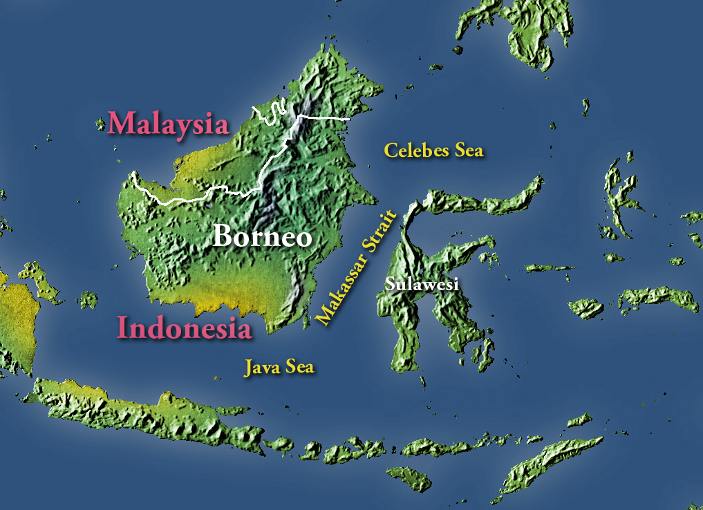 Locator map of Makassar Strait